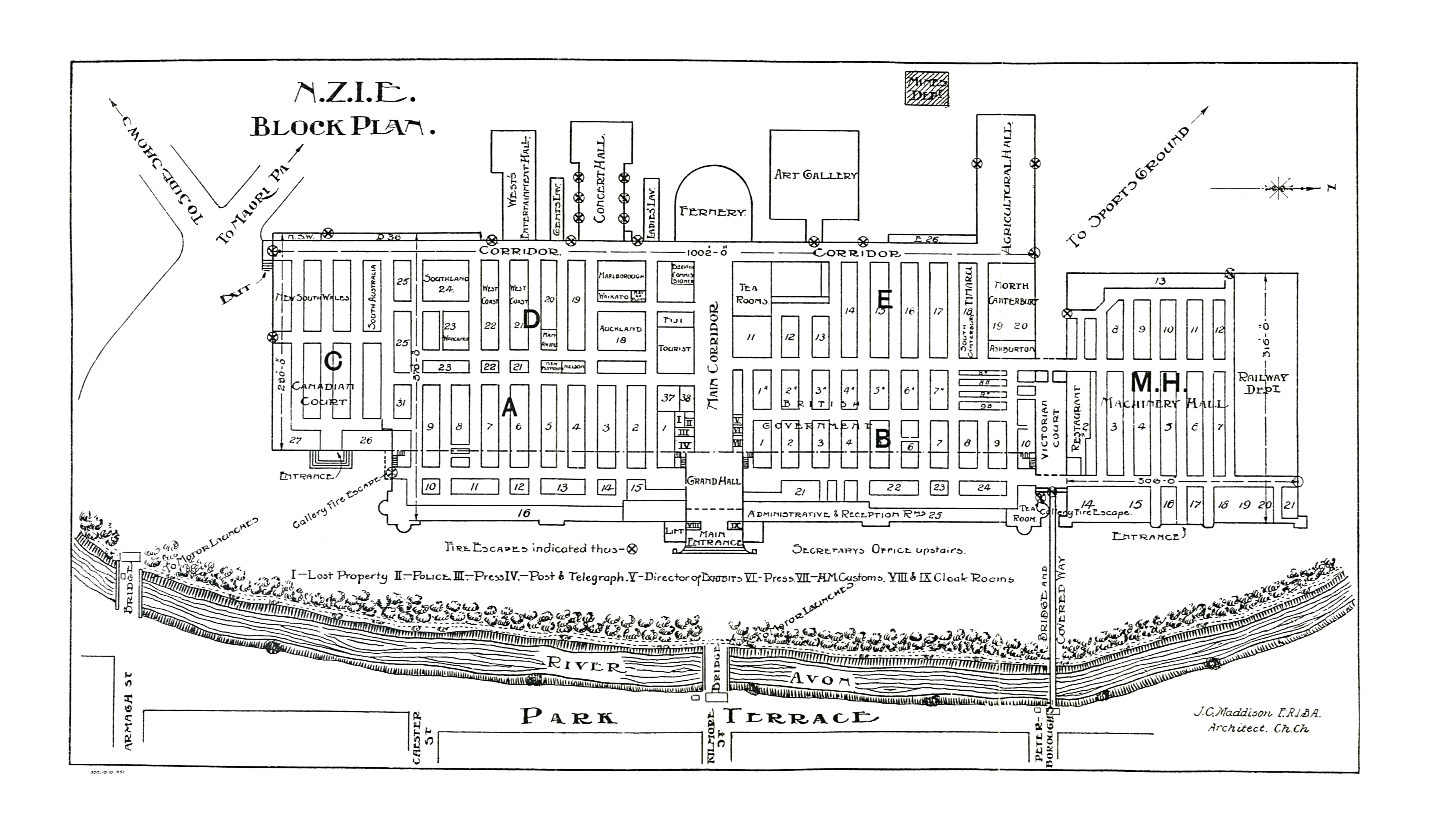 Plan of the Exhibition Buildings for the 1906 New Zealand International Exhibition, Hagley Park, Christchurch